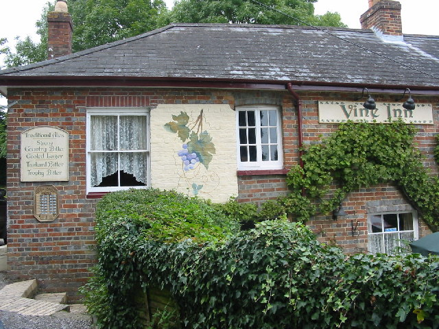 The Vine Inn, Pamphill, near Wimborne. Owned by the National Trust. Painted in the estate colour, Kingston Lacy Red.